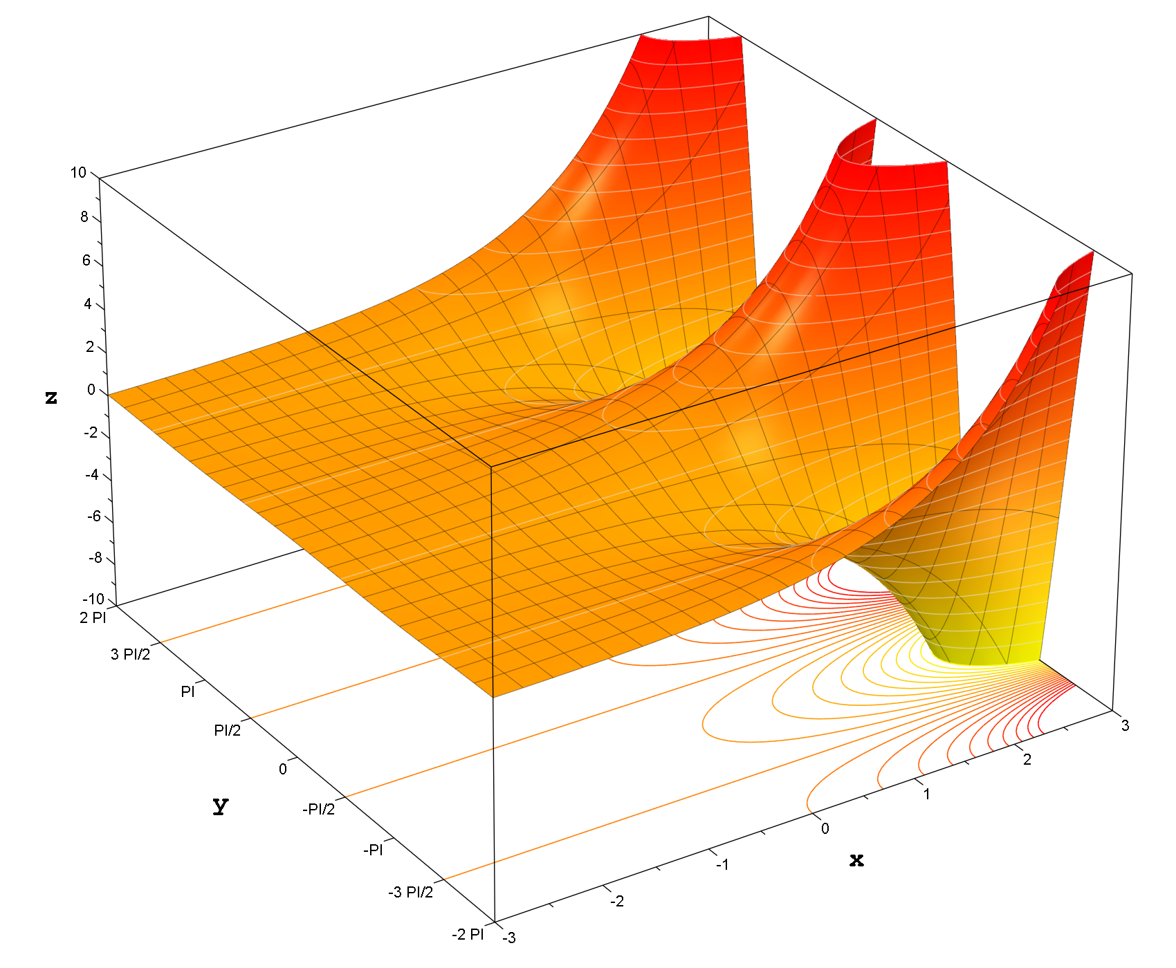 Diagram of the real part of exponential function in the complex plane. The surface is given by